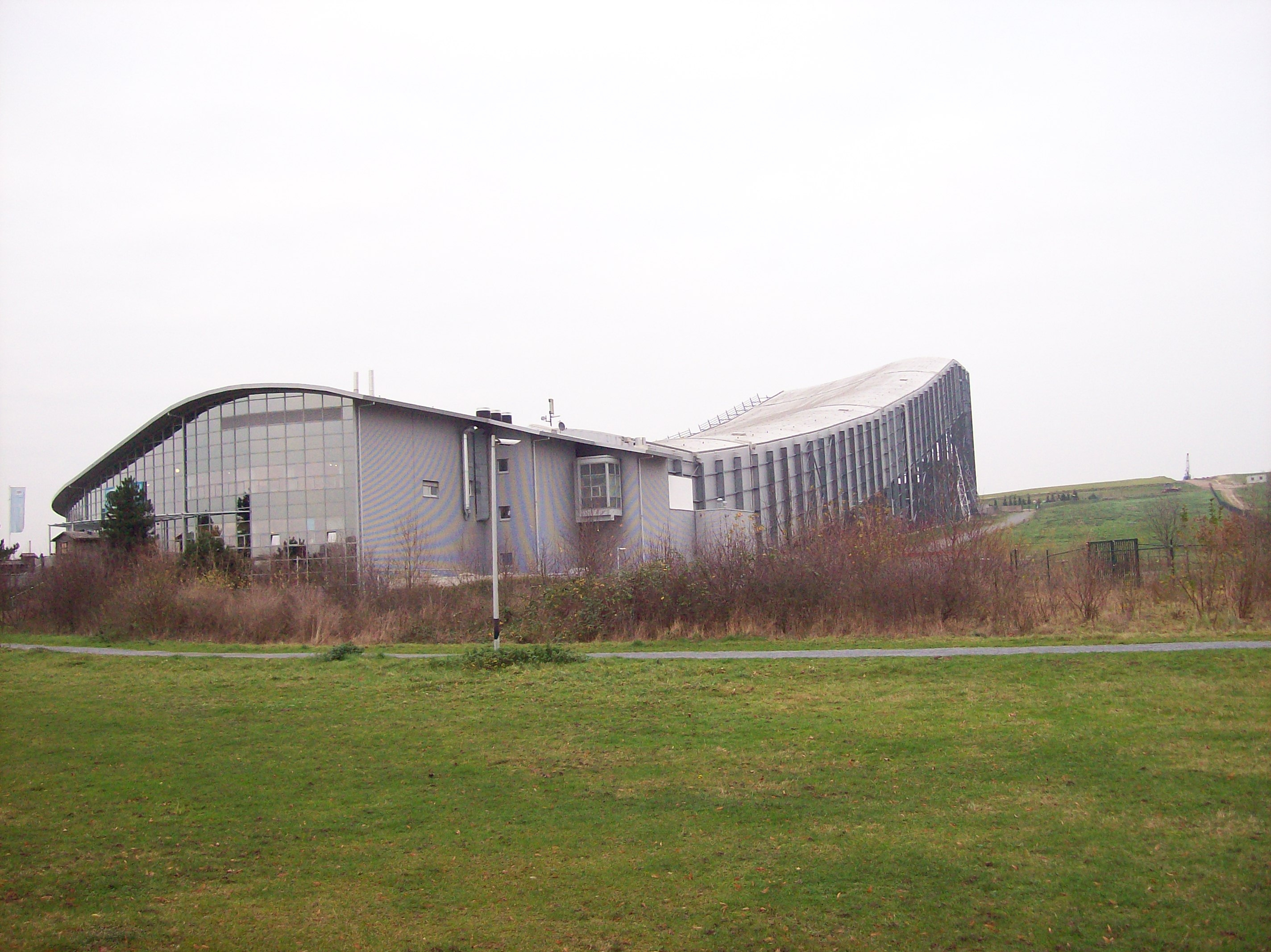 Jever Skihalle in Neuss (Germany)